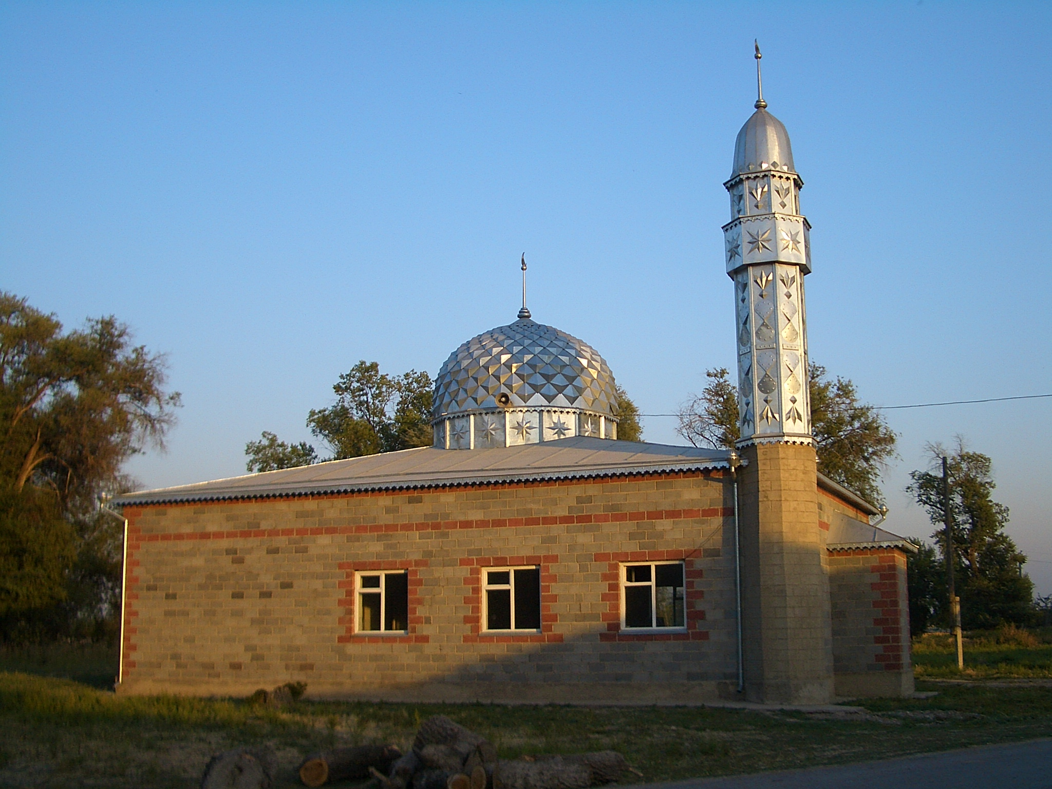 The mosque in the village of Pervomayskoe, in Ysyk Ata District of Chuy Province. (Between Kant and Milyanfan).